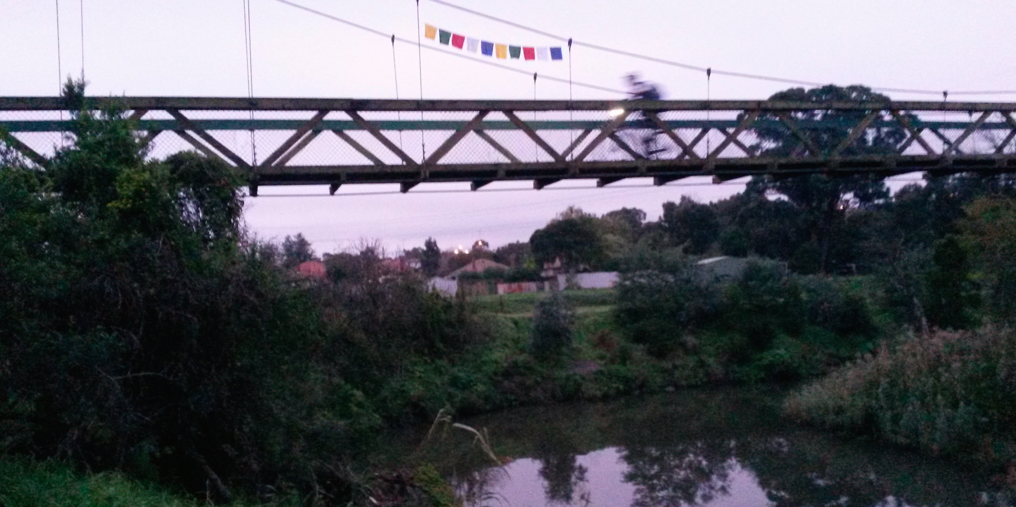 Taken from west bank of Merri creek looking North East. Early morning cyclist passes prayer flags.